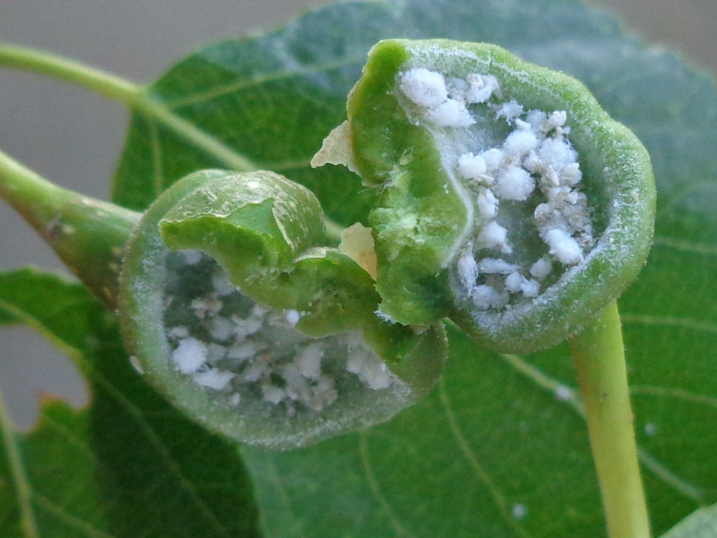 Pemphigus spyrothecae. Found in Riga town, Latvia